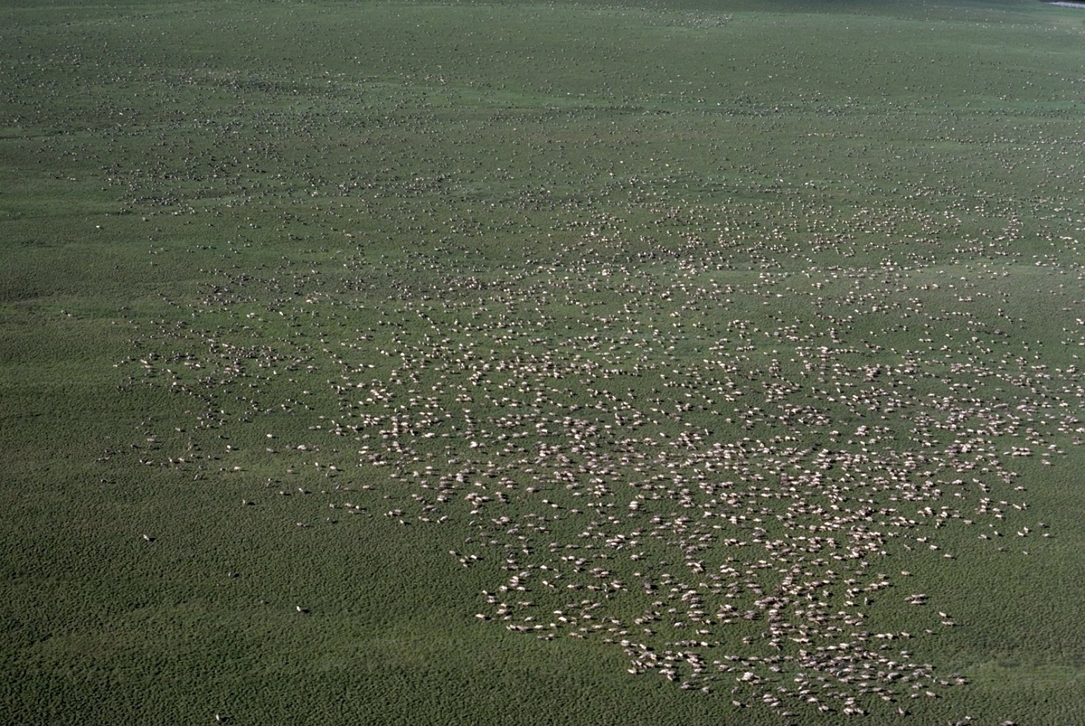 Caribou aggregation in 1002 Area, Arctic National Wildlife Refuge